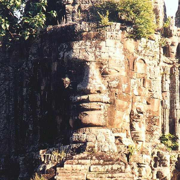 Angkor (Cambodia, early 13th century) - Detail of the face-tower of the so-called South Gate of Angkor Thom (the "Big City"). According to the common opinion of historians, the faces depict the Bodhisattva Avalokiteshvara.